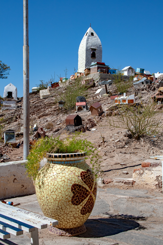 Christian-pagan shrine to Difunta Correa in Vallecito, San Juan, Argntina